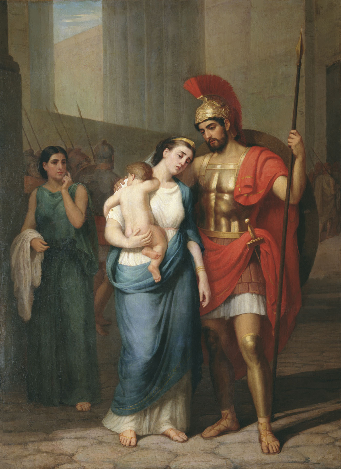 Hector and Andromache